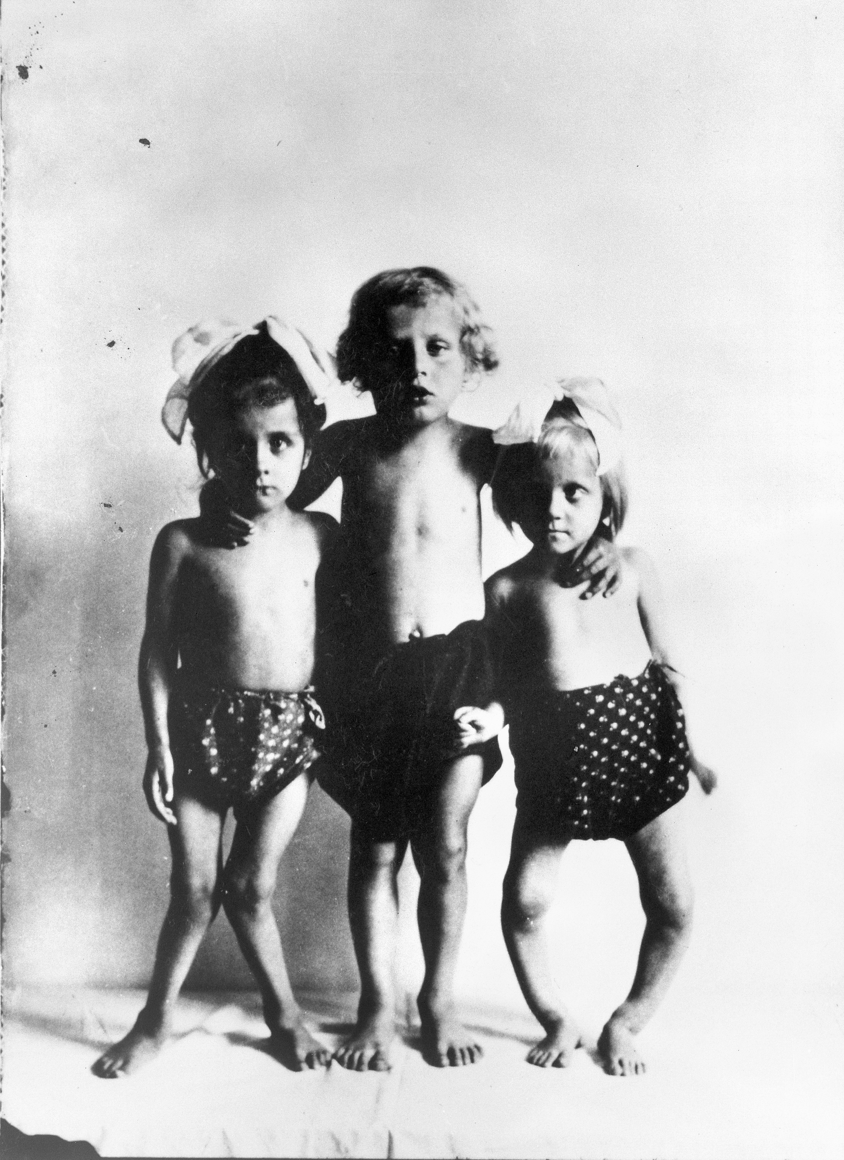 Three children with rickets; anon., Friends' Relief Mission, Vienna XII, n.d. Wellcome Images Keywords: diseases: rickets